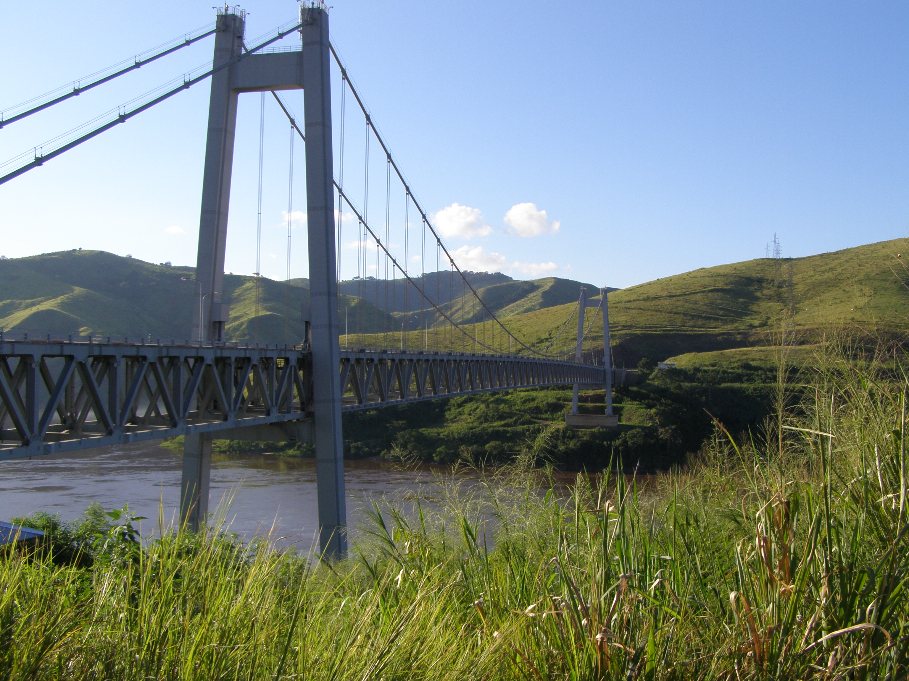 The Matadi Bridge (also called Maréchal Bridge) is a suspension bridge in the port of Matadi, Democratic Republic of Congo